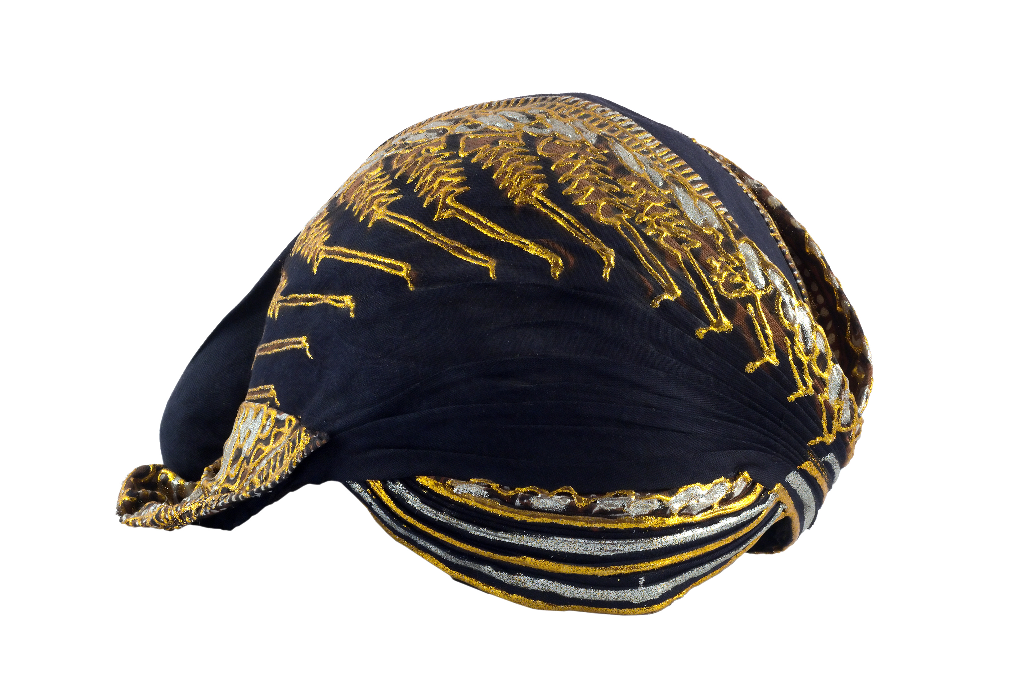 Ngayogyakarta-style blangkon, 2015-05-17. Decorated with glitter; usually worn at weddings.